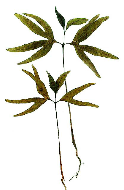 Pterocarya fraxinifolia, seedlings